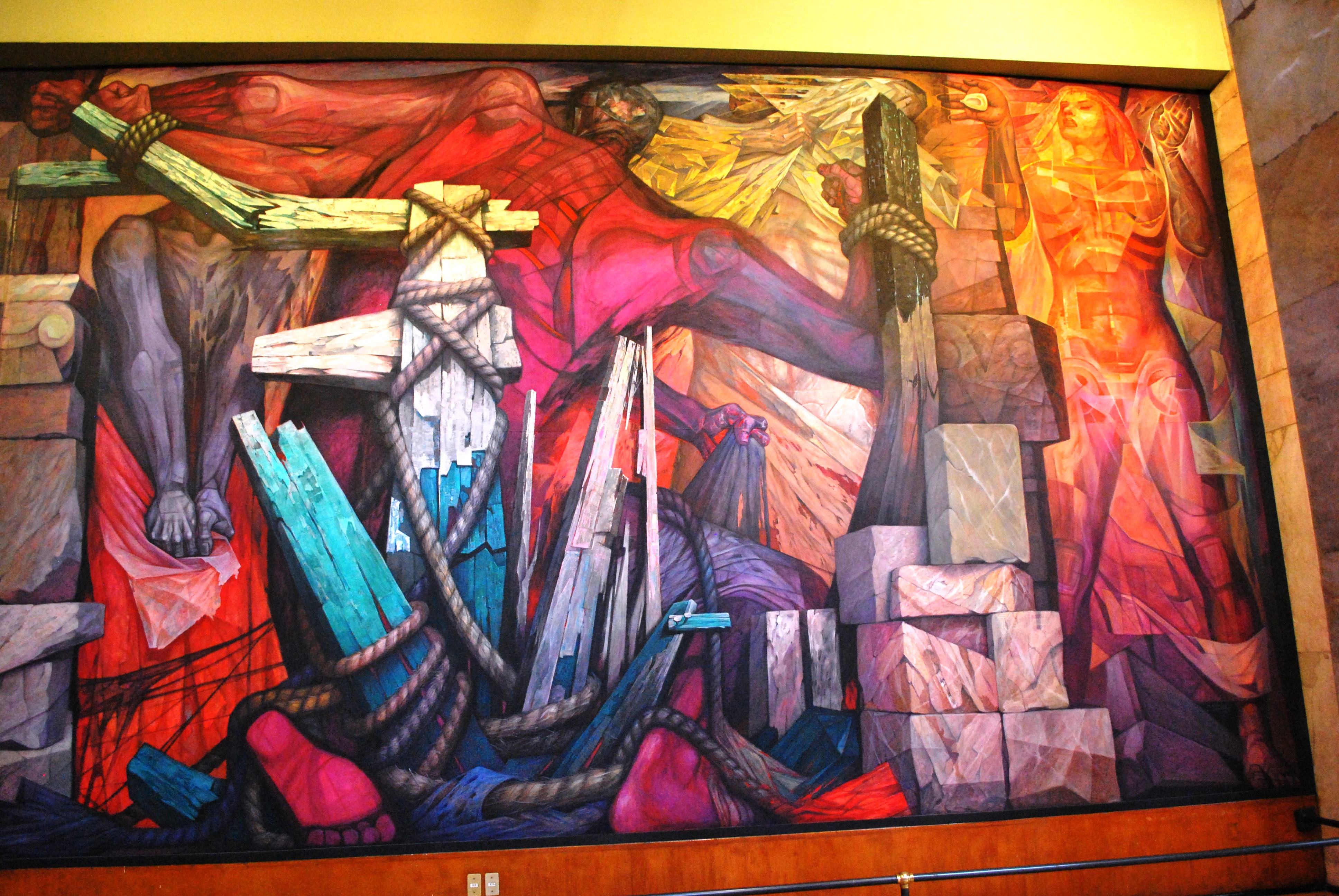 Mural title: "Liberación" (Liberation) or "La humanidad se libera de la miseria" (The man is released from the misery)1963 Jorge González Camarena in the Palacio de Bellas Artes in Mexico City